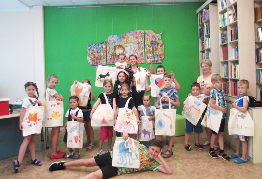 Green library